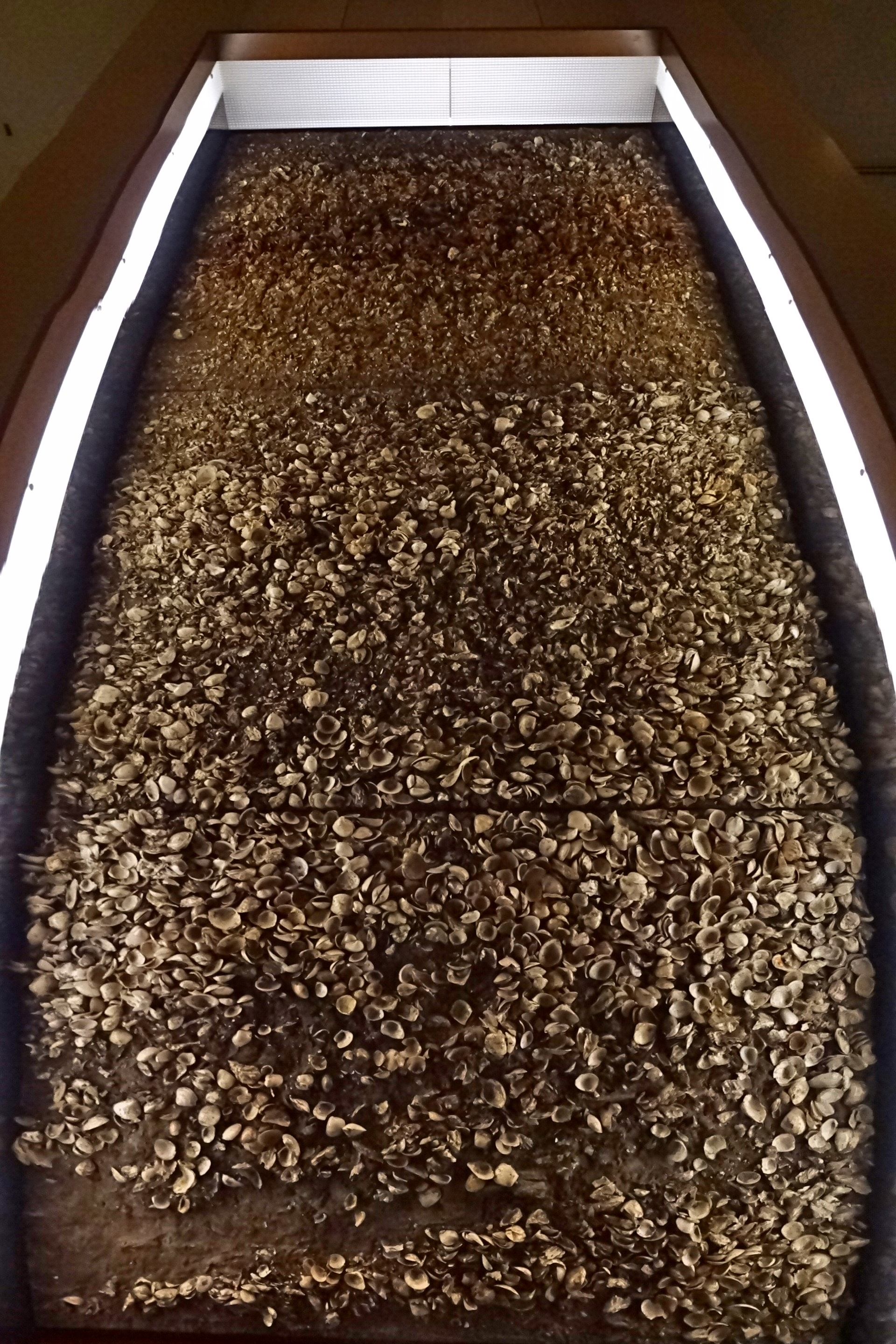 Cross section of shell midden. Exhibit "Exploring Jomon Culture", Niigata Prefectural Museum of History, Nagaoka, Niigata Prefecture, Japan.